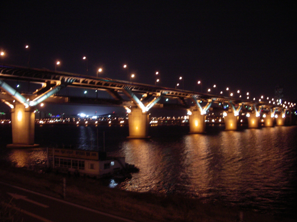 Cheongdam Bridge at night